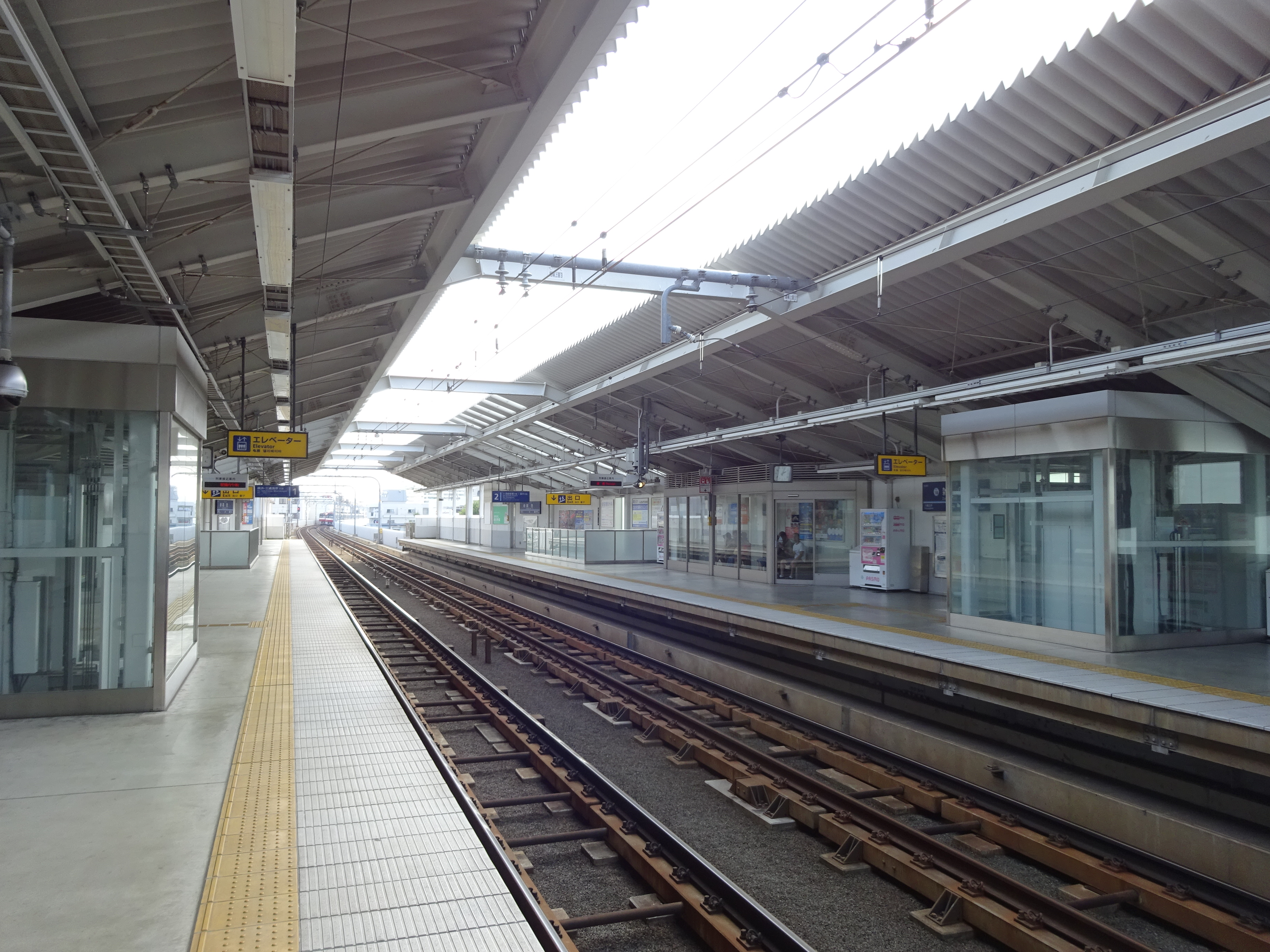 Platforms of Zōshiki Station